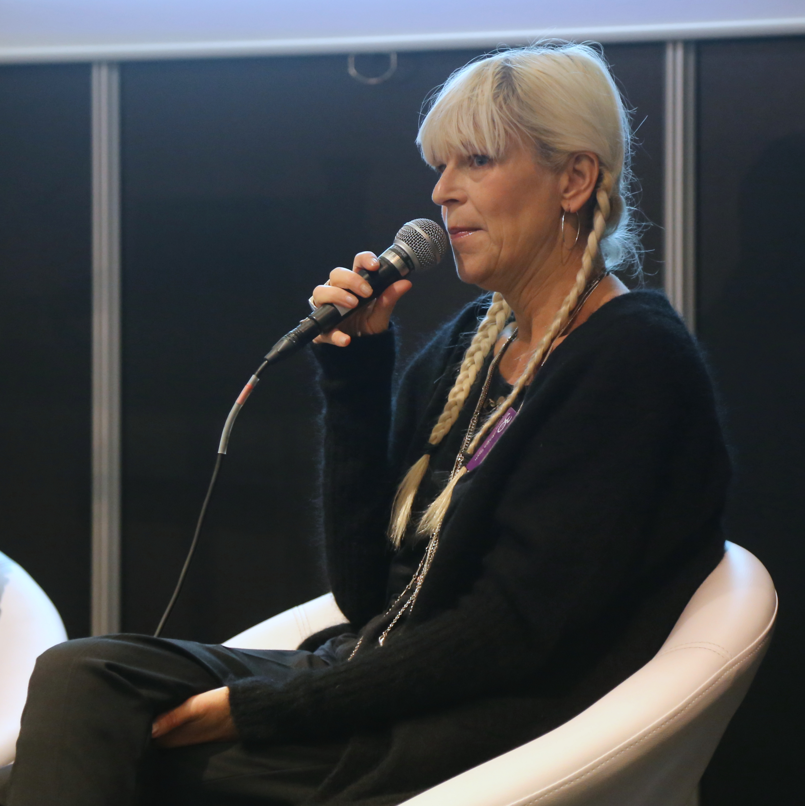 Kajsa Grytt at the Gothenburg Book Fair 2014.